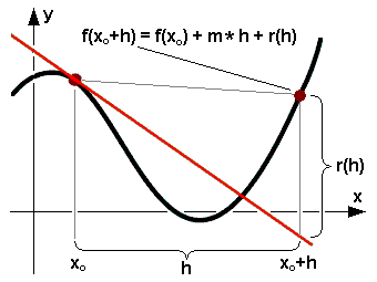 On differentiability of a function f(x)